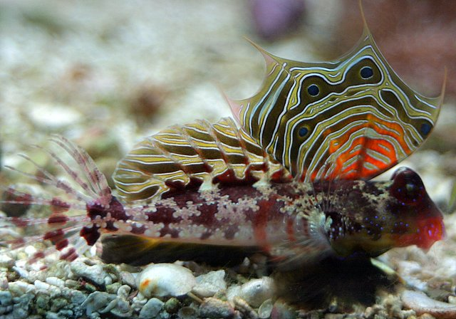 Scooter blenny (Synchiropus ocellatus) male, showing his colors